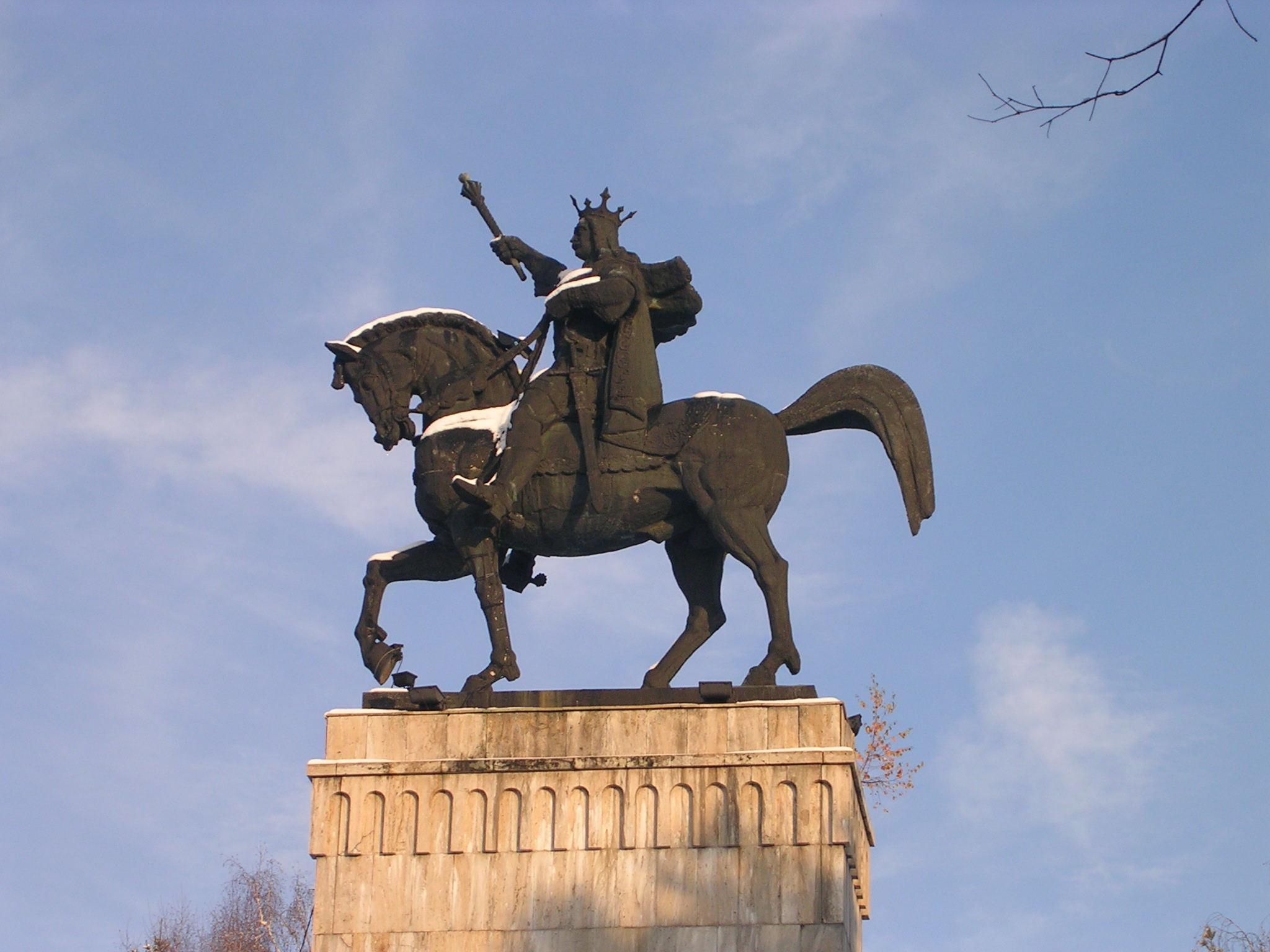 Equestrian Statue of Stephen III of Moldavia in Suceava.